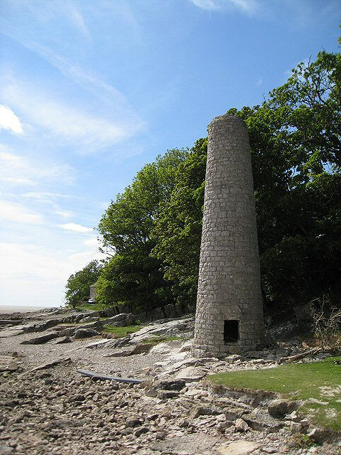 Copper smelting chimney The chimney is still reasonably intact and apparently daylight can be seen if one's head is inserted into the tunnel/entrance!